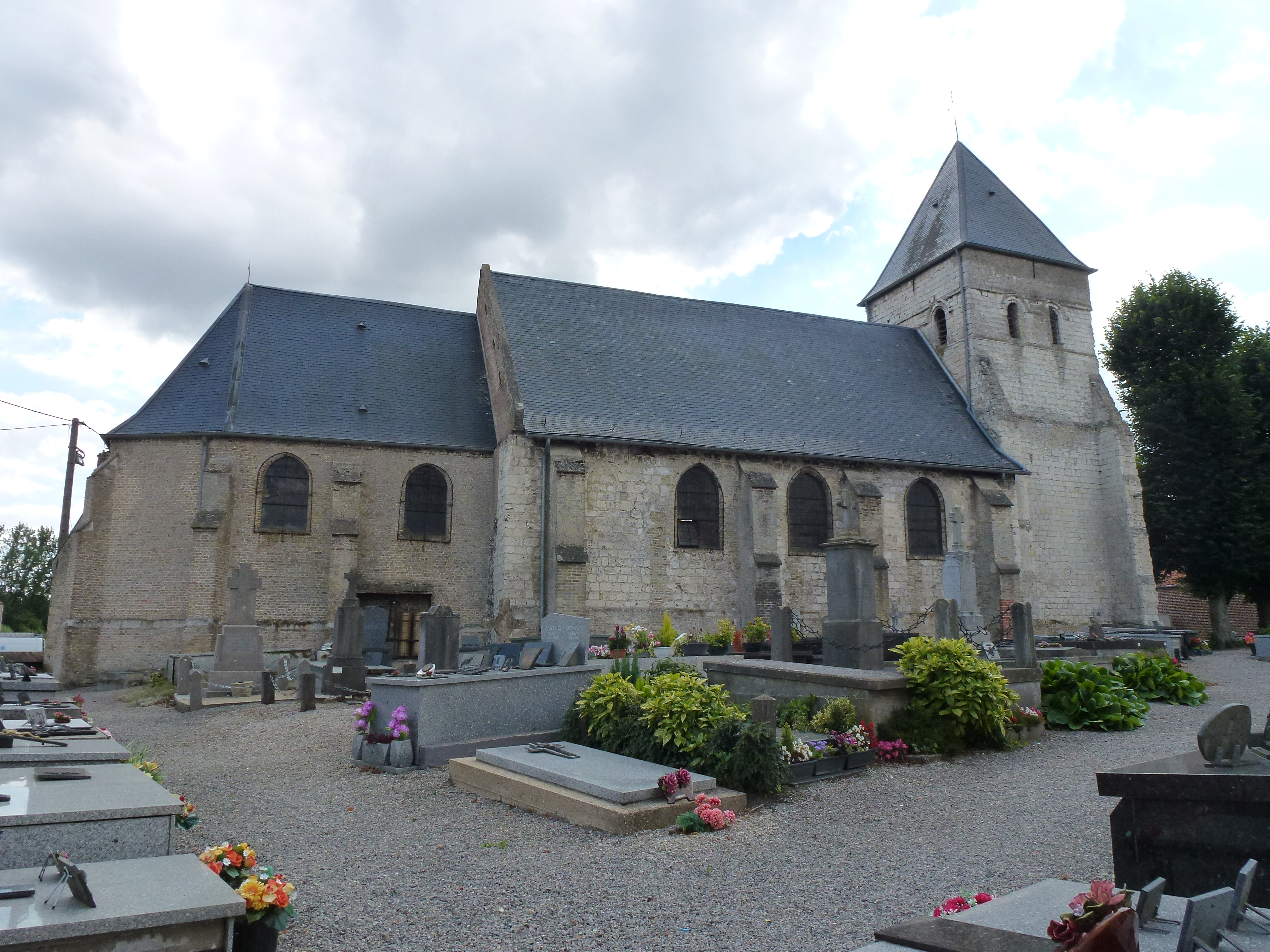 Houlle (Pas-de-Calais) église Saint-Jean-Baptiste